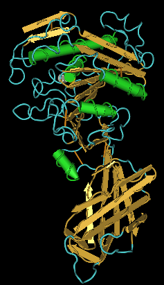 I generated this image myself using Cn3D 4.1 (Publicly-owned software offered FREE by TAXPAYER SUPPORTED National Institutes of Health/ NCBI National Center for Biotechnology Information). The coordinates displayed are of The data supporting the image were released/deposited to a Public Database (protein data bank) by the scientists who solved the crystal structure. More about the Publicly available FREE software used to generate this image (hosted and provided by a US Federal Government Agency (NIH): 03:44, 4 February 2008 (UTC)Jpkamil